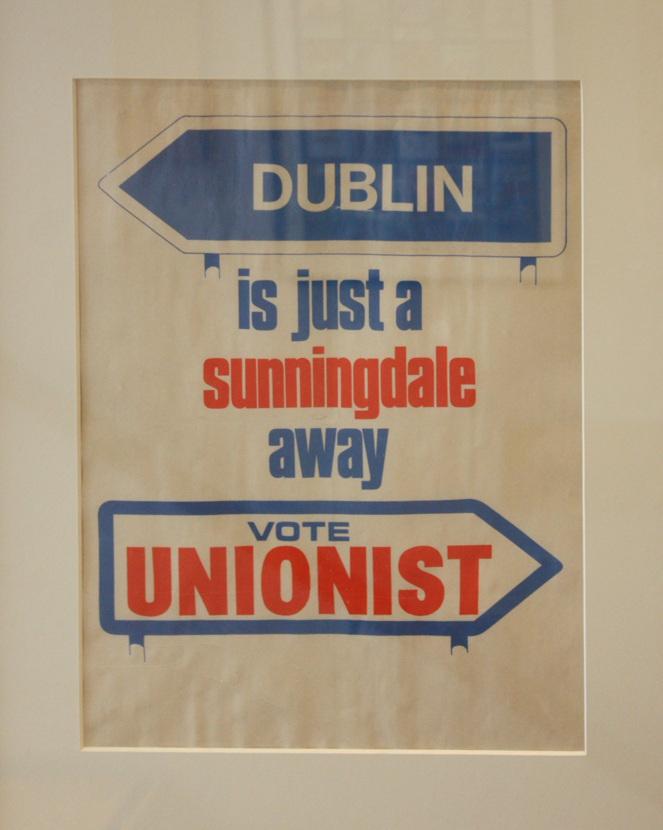 "Dublin is just a Sunningdale Away" (Ulster Unionist Party, 1974), Troubled Images Exhibition, Linen Hall Library, Donegall Square North, Belfast, Northern Ireland, August 2010